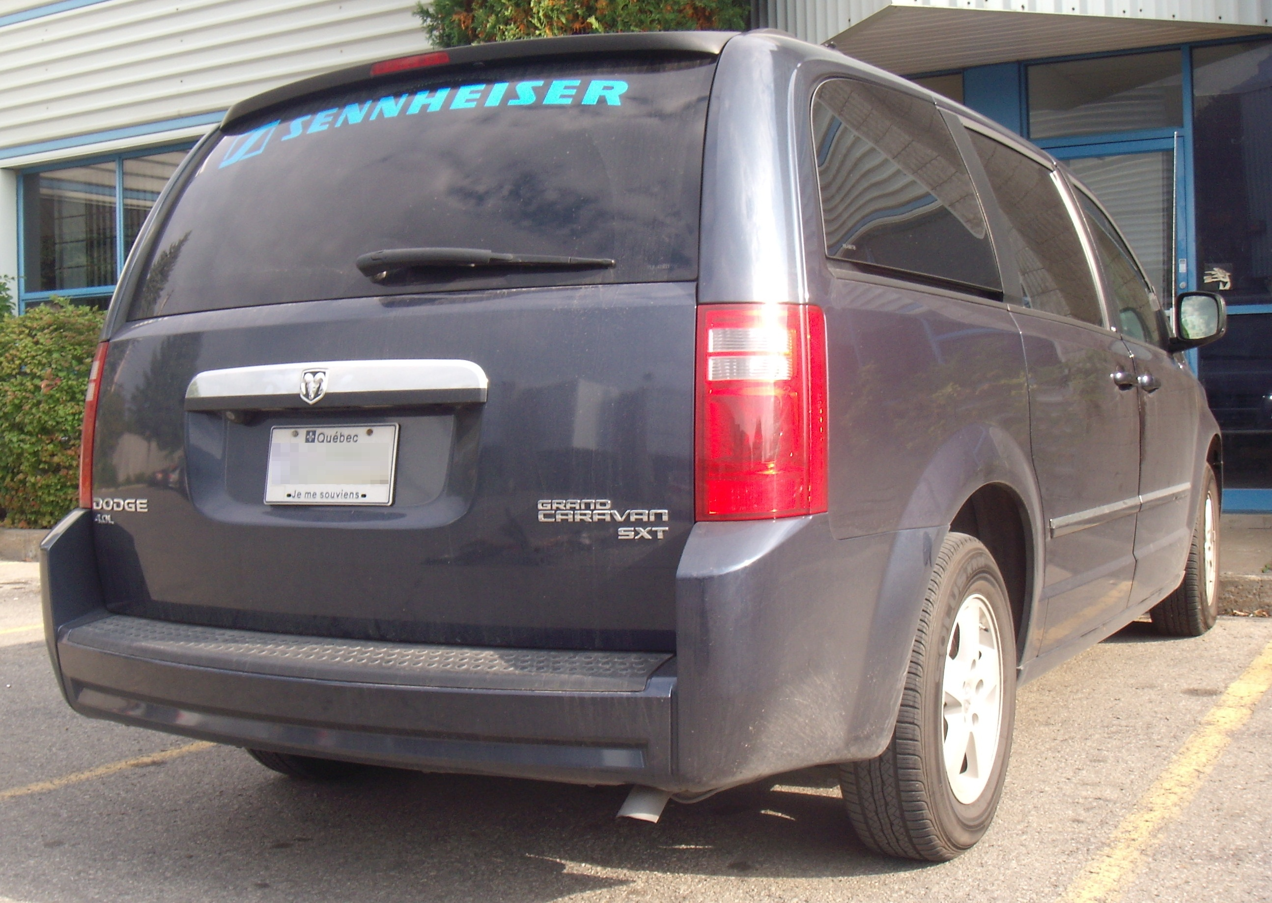 2009-2010 Dodge Grand Caravan Sennheiser photographed in Pointe-Claire, Quebec, Canada.